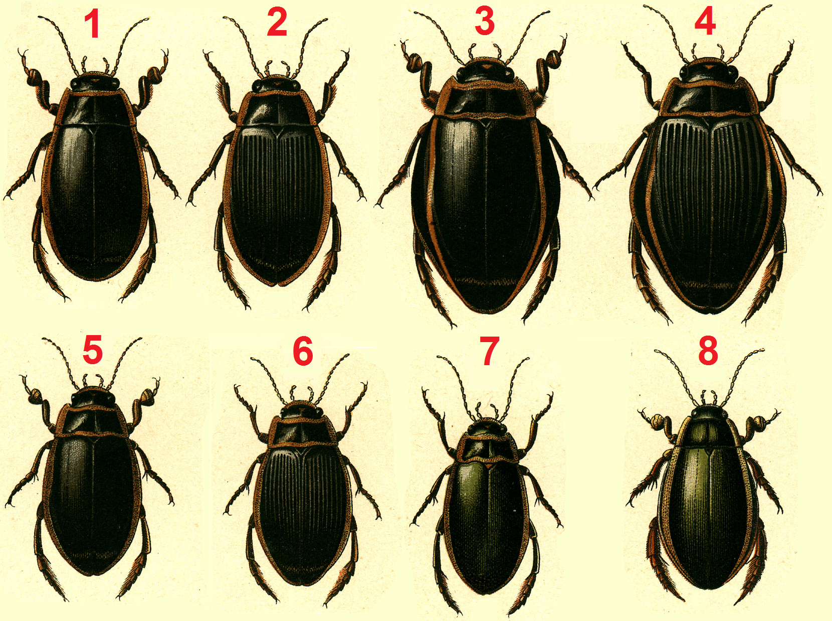 Illustration of monographs Georgiy Jacobson "Beetles Russia and Western Europe". Publisher: Devriena company. The first issue was released in 1905, the last - in 1915. Illustrations were mostly taken from the publication CG Calwers Kaeferbuch. Part of illustrations drawn O. Somina 1 = Dytiscus dimidiatus male 2 = Dytiscus dimidiatus female 3 = Dytiscus latissimus male 4 = Dytiscus latissimus female 5 = Dytiscus marginalis male 6 = Dytiscus marginalis female 7 = Dytiscus circumflexus female 8 = Cybister laterimarginalis male